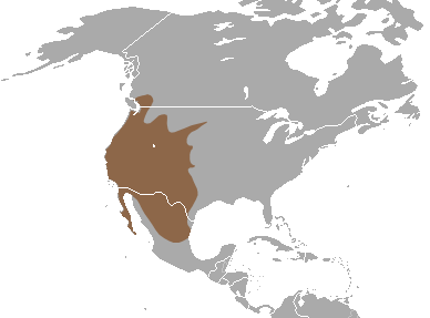 Western Spotted Skunk (Spilogale gracilis) range, with colonial borders added